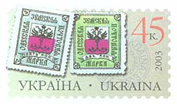 Stamp of Ukraine, 125th Anniversary of Odessa Zemstvo Post, 2003